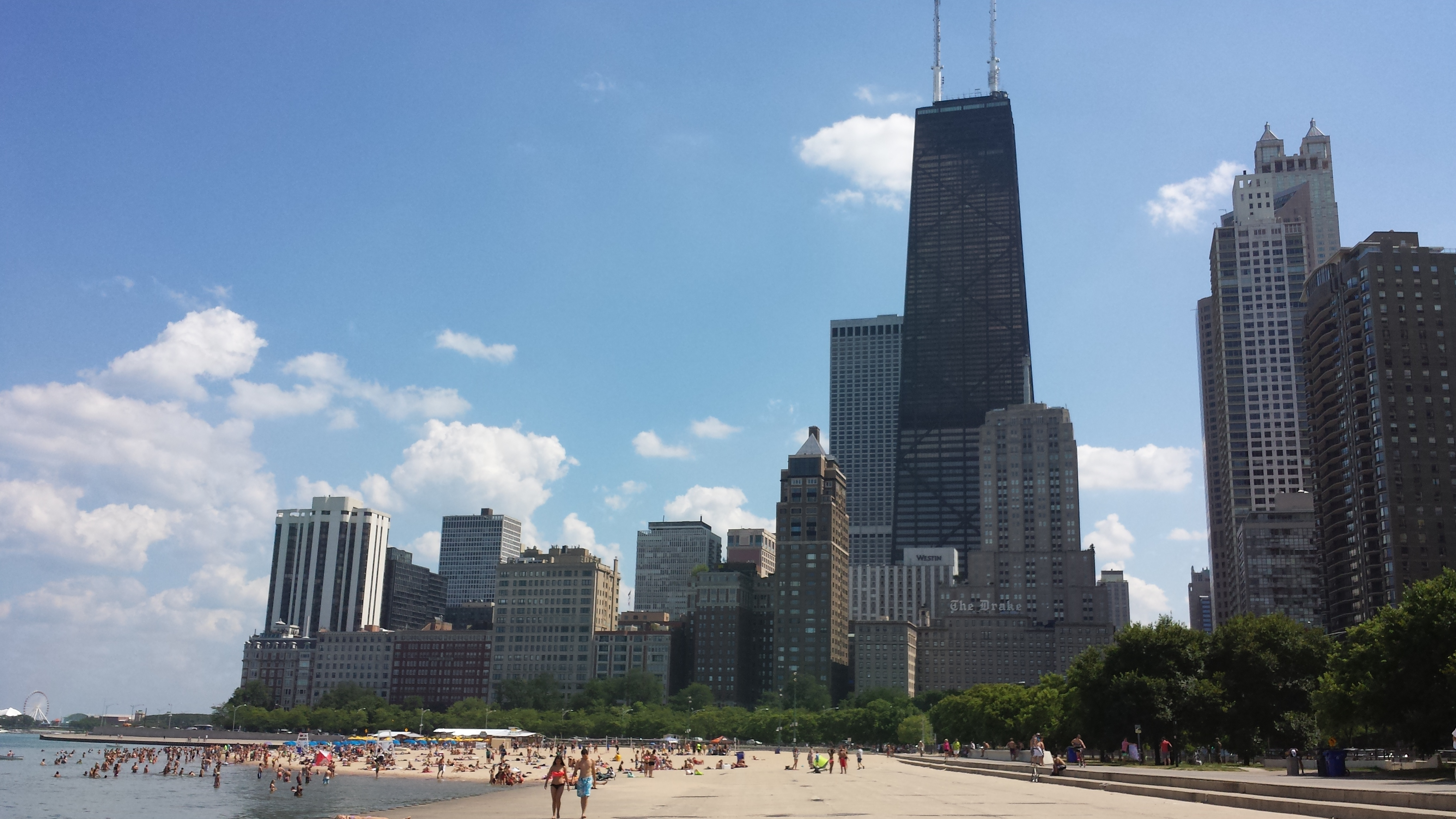 Oak Street Beach Chicago looking south from Goethe Street